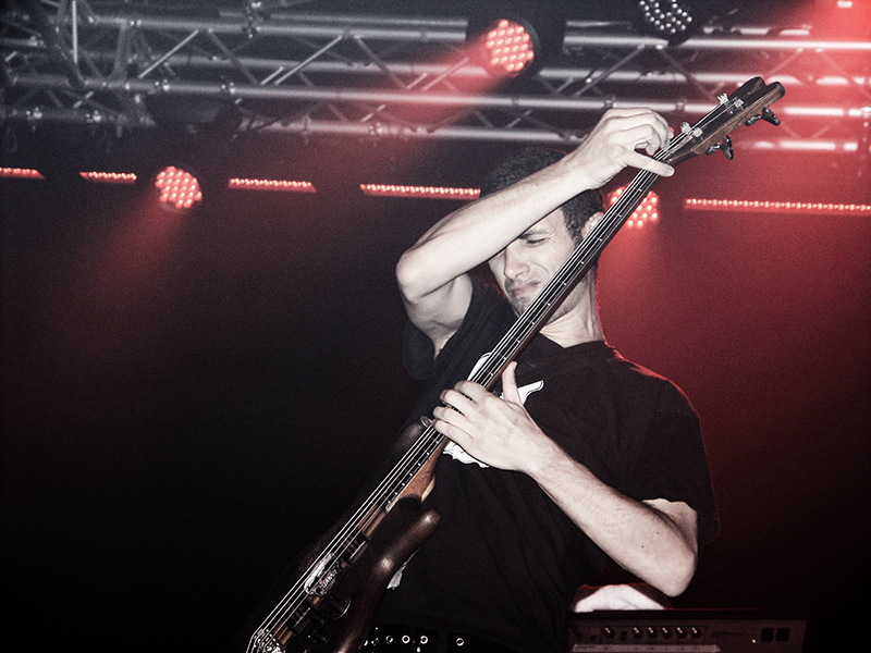 Massimo Pupillo in Aarhus, Denmark 2010